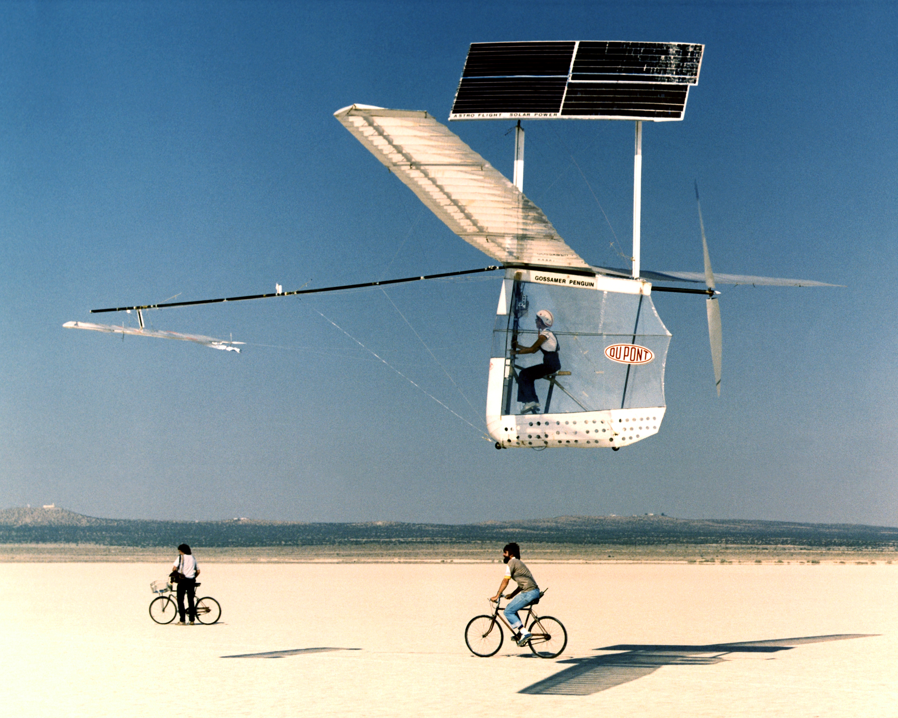 Test flight of the Gossamer Pinguin solar plane